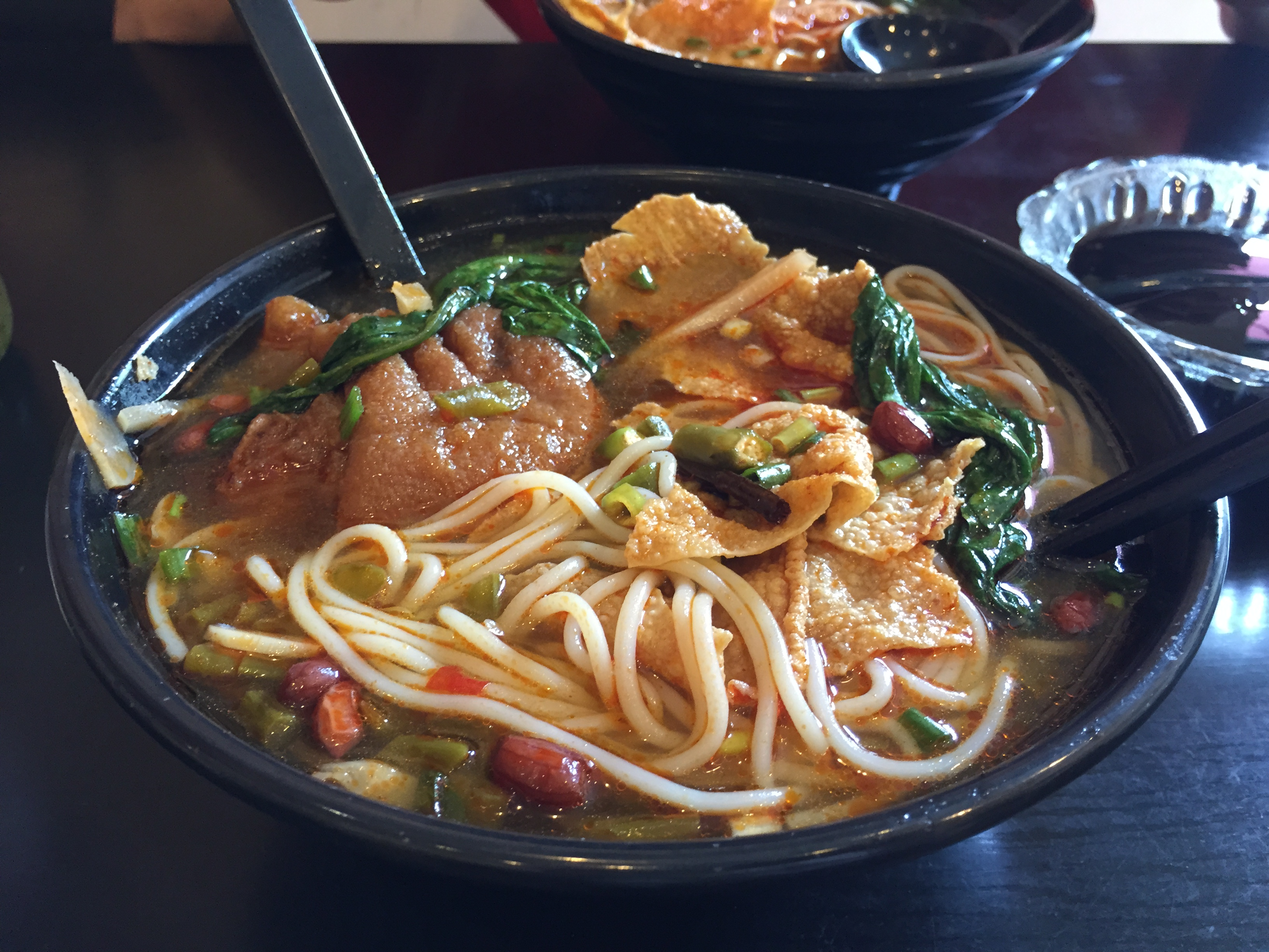 A medium bowl of Luosifen with pork knuckles...